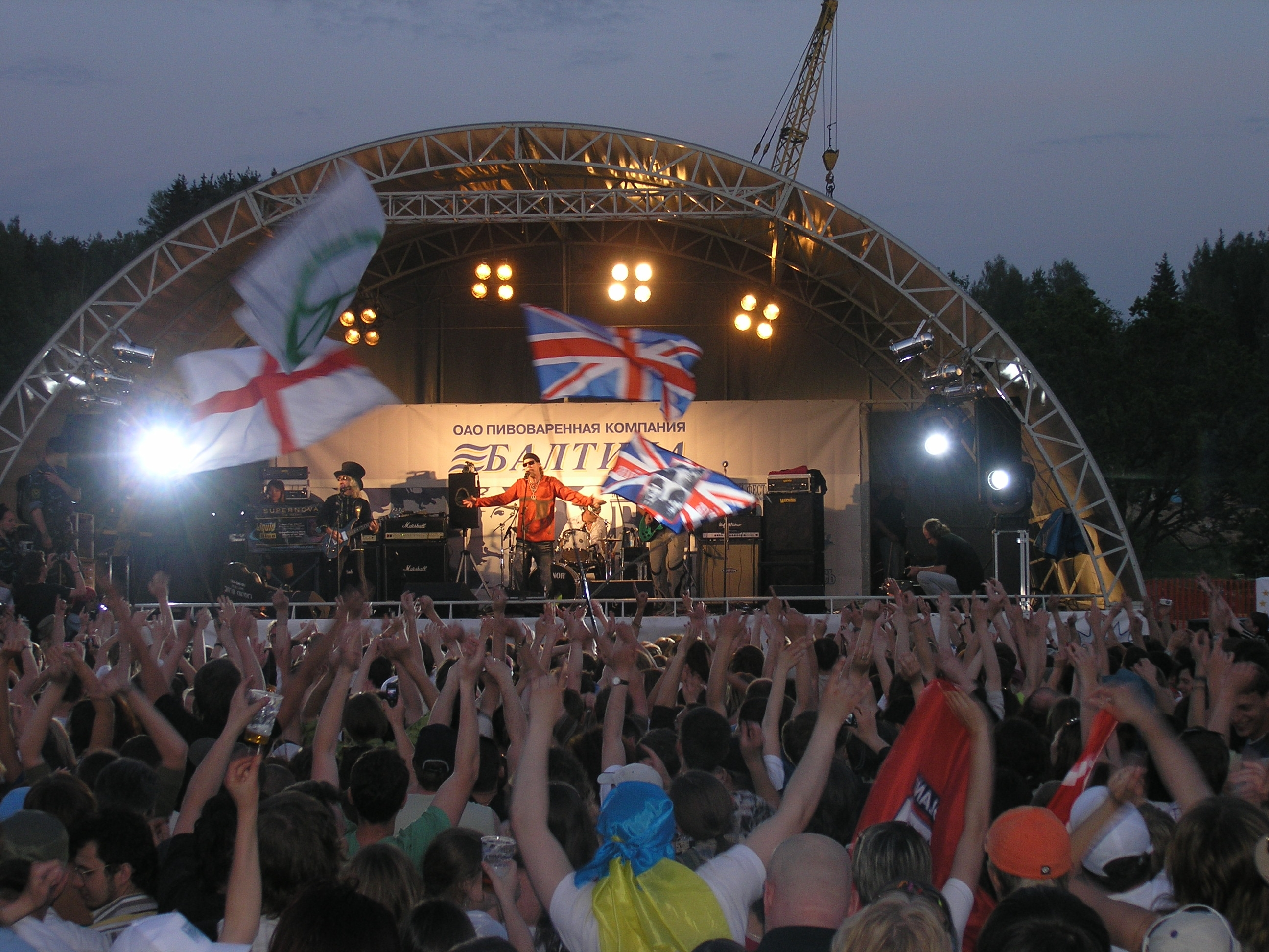 Photo of Liquid Blue playing in Belarus